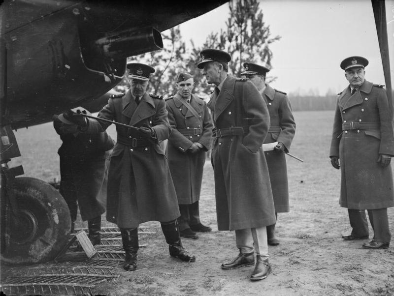 Photograph of Air Chief Marshal Sir Cyril Newall inspecting a Fairey Battle aircraft in France. Air Commodore Lord Londonderry is looking on whilst Air Vice-Marshal Patrick Playfair, the Commander of the Advanced Air Striking Force, is to be seen on the right.